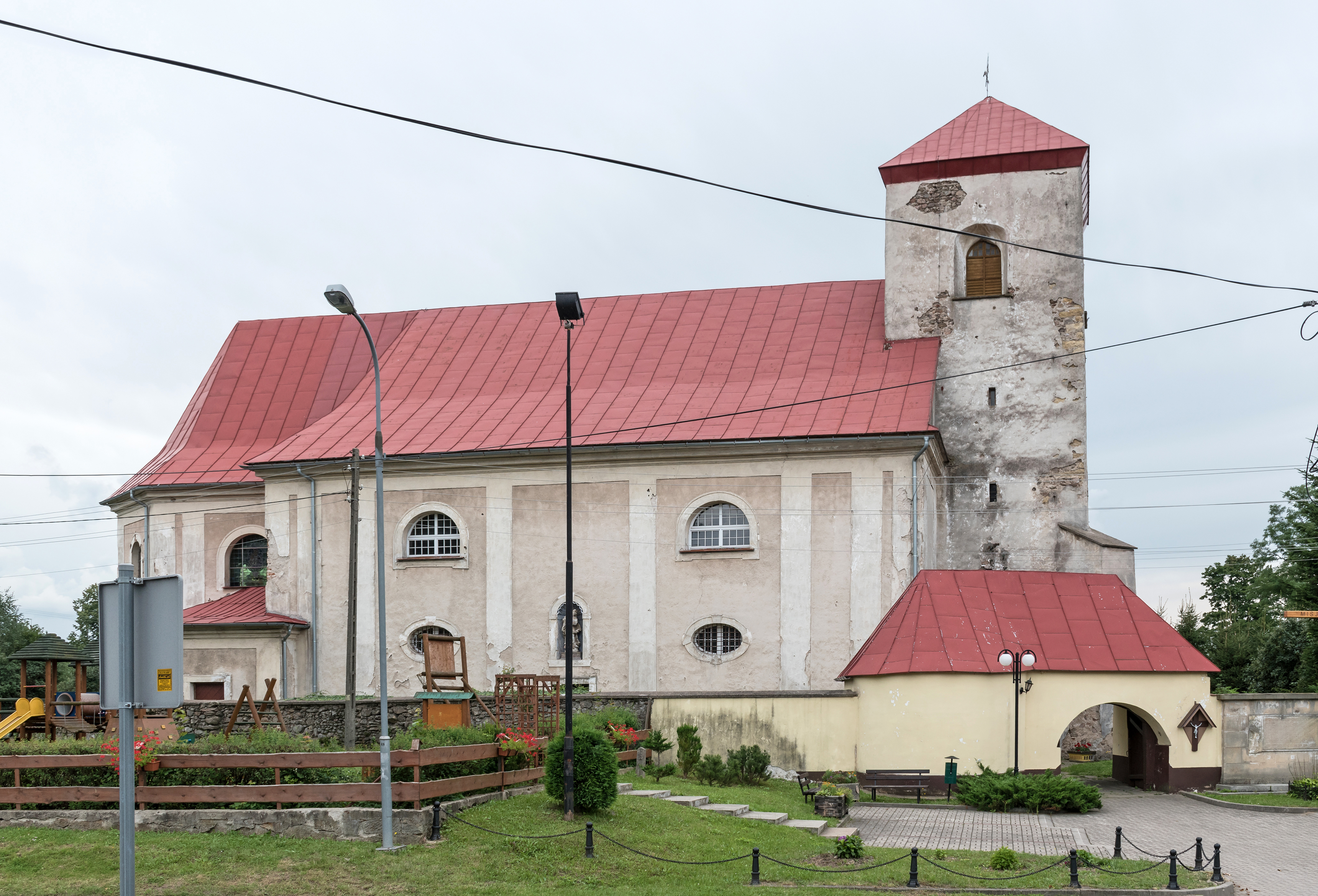 Saints Peter and Paul church in Goworów Wikidata has entry Q30048845 with data related to this item.